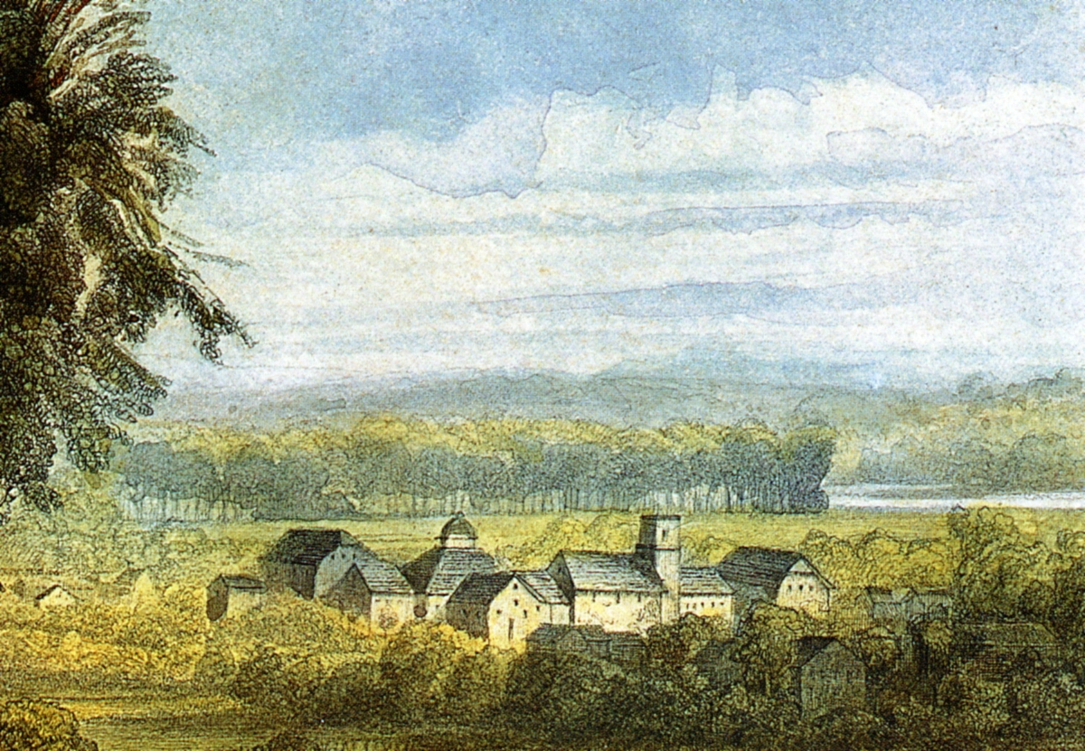 New Harmony on the Wabash River painted by Karl Bodmer 1832 – 1833.